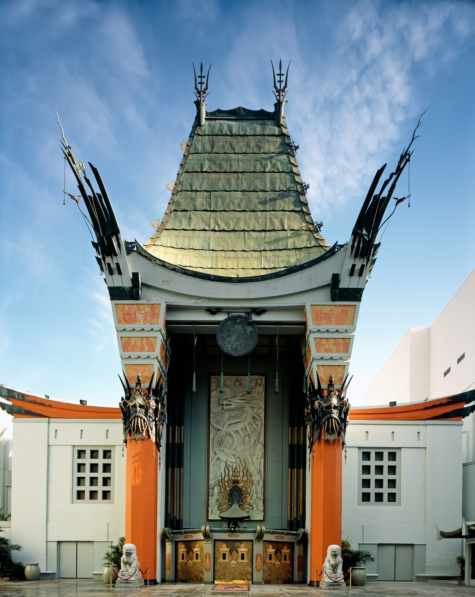 Grauman's Chinese Theatre, photographed by Carol M. Highsmith, who has donated her collection to the Library of Congress, and placed the images in the public domain. Medium-resolution version downsampled from high-resolution original. Source Licensing information: "Publication and other forms of distribution: Permitted. Ms. Highsmith has stipulated that her photographs are in the public domain. (See P&P Collection Files.)" "Credit Line: Library of Congress, Prints & Photographs Division, photograph by Carol M. Highsmith [LC-DIG-pplot-13725-01364 (digital file from LC-HS503-489)]"